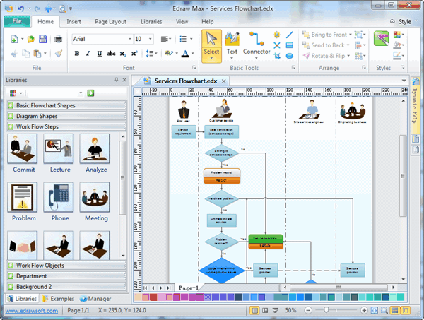 edraw flowchart interface